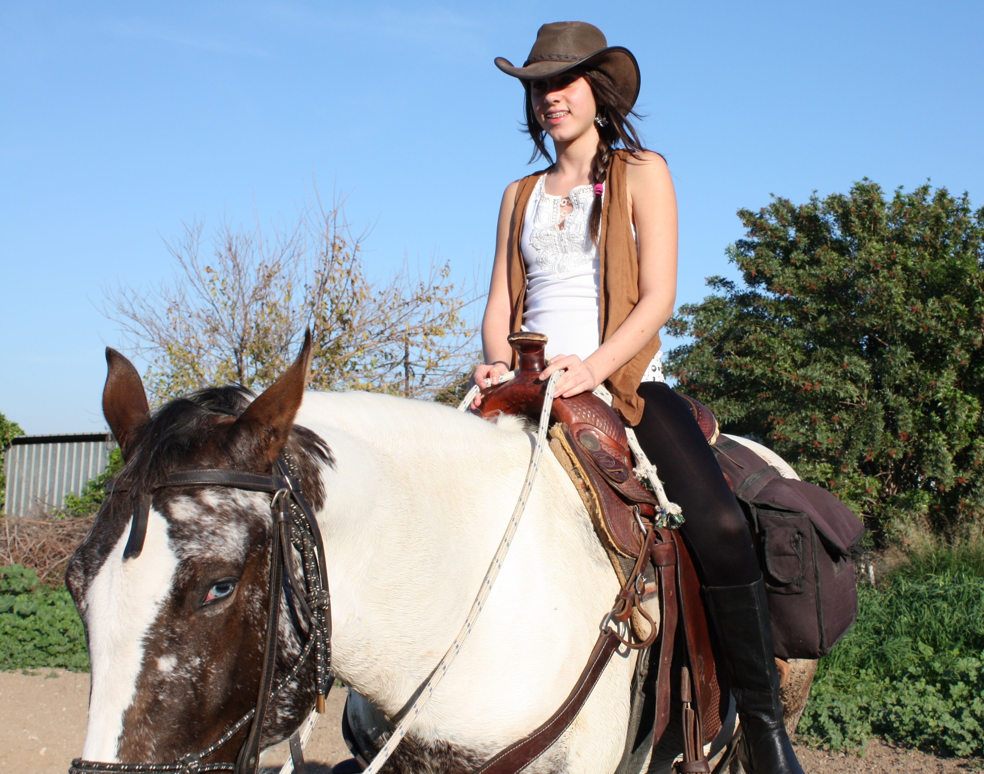 A young cowgirl posing in Israel